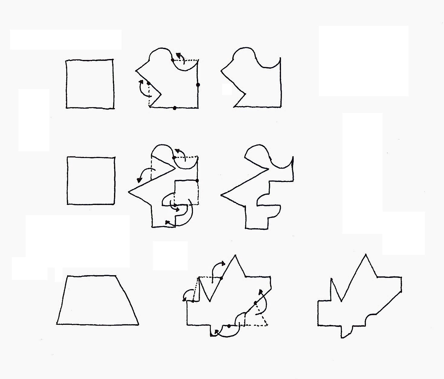 pattern, tessellation